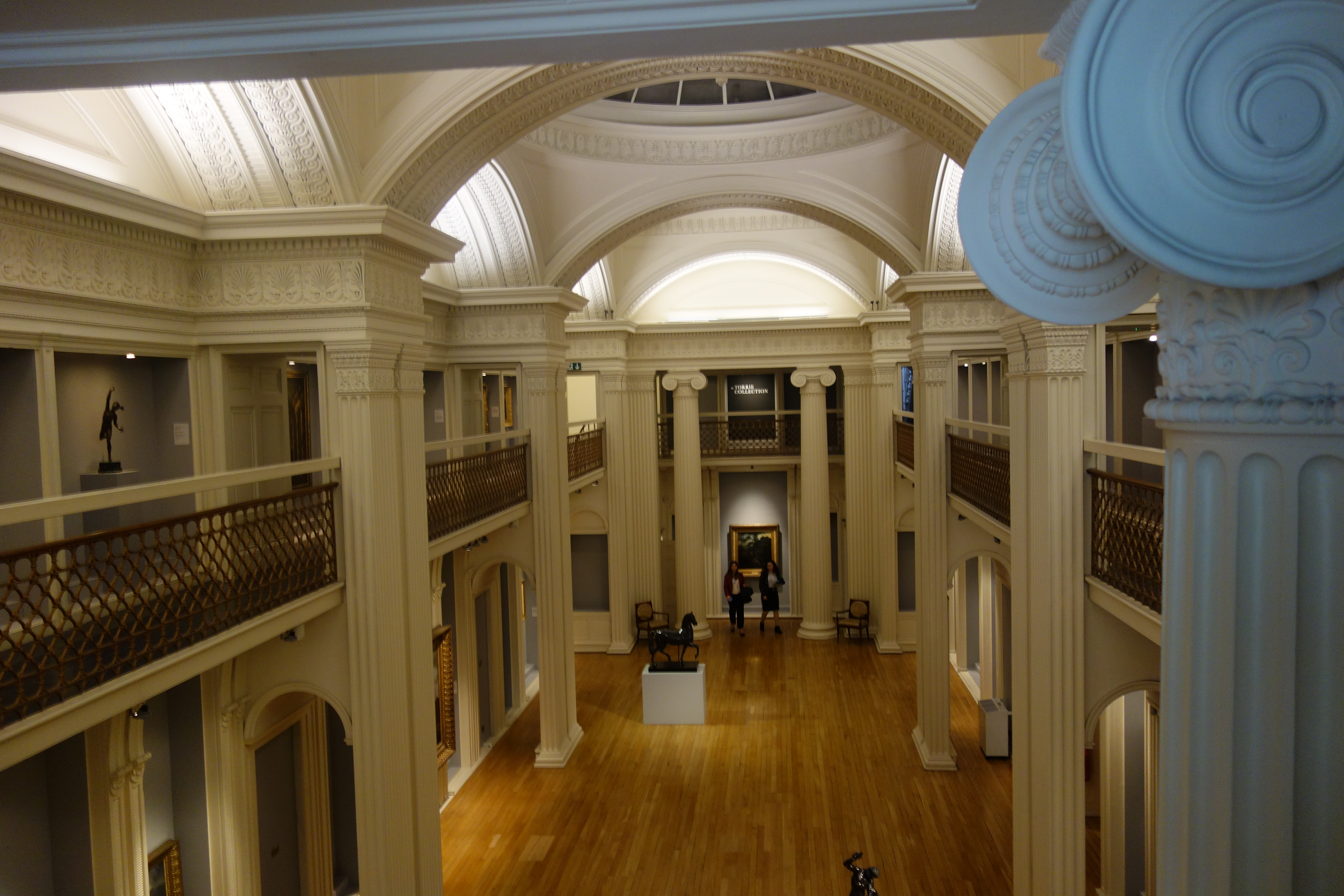 Talbot Rice Gallery, University of Edinburgh (2017)